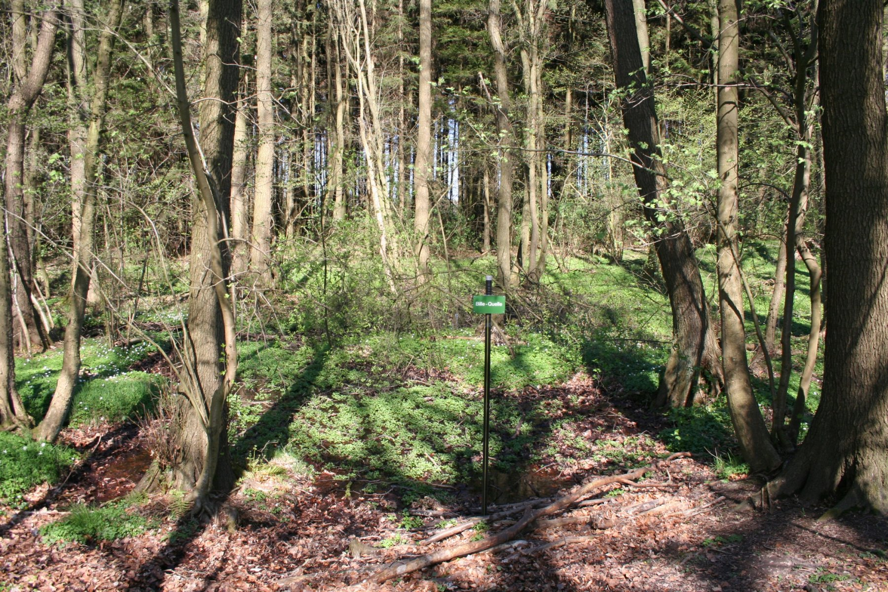 Source of Bille River near Linau